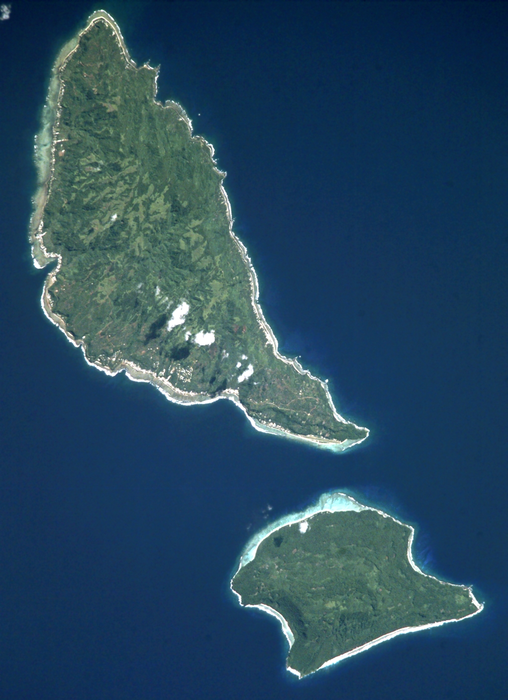 Futuna and Alofi, also known as Horne Islands